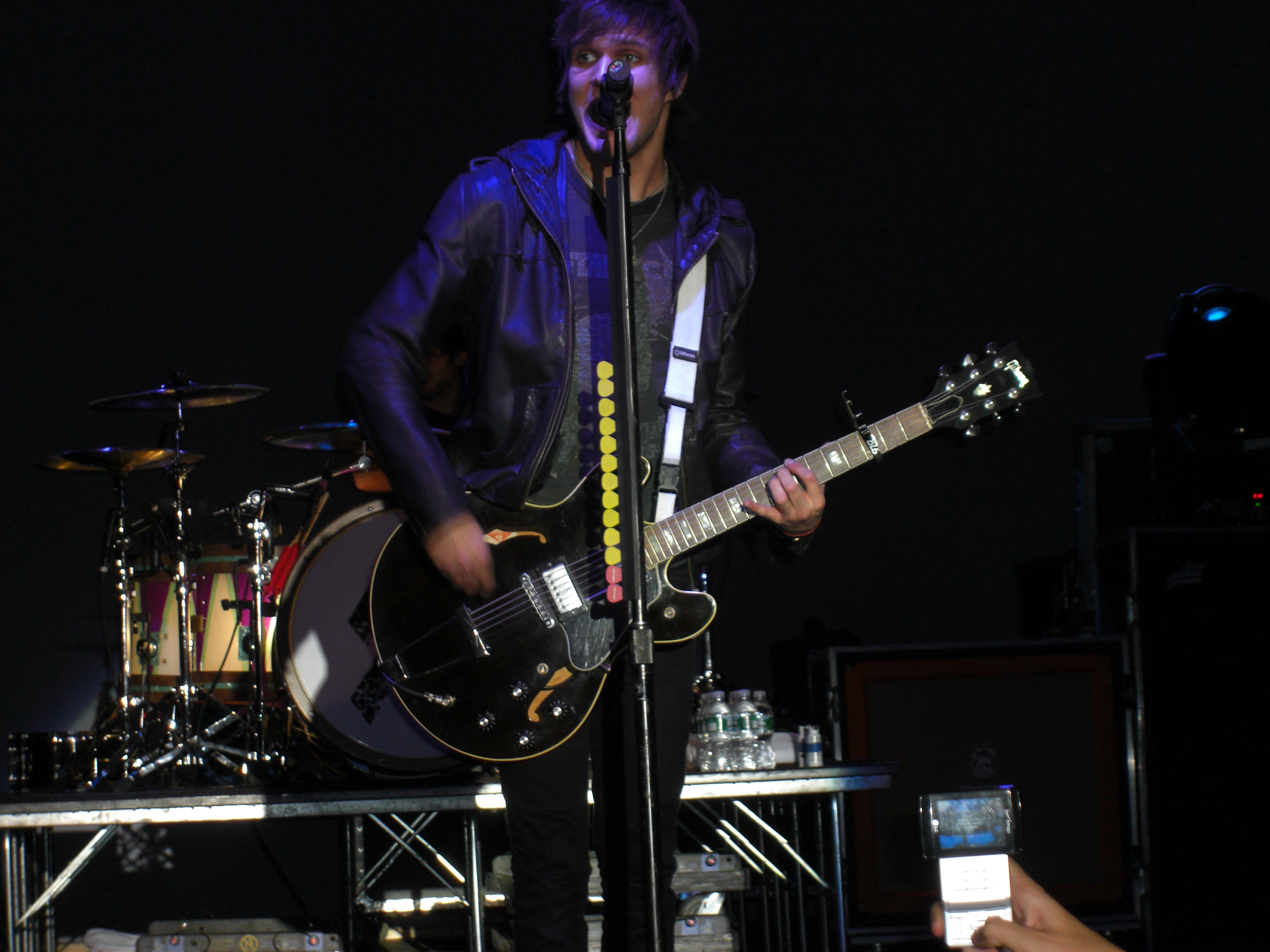 Boys Like Girls lead singer Martin Johnson performs in Rochester, New York, on October 12